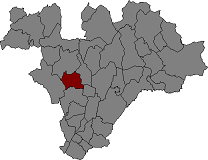 Location of Santa Eulàlia de Ronçana in Vallès Oriental